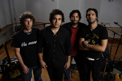 The Monas at Criteria Recording Studios. Miami, FL